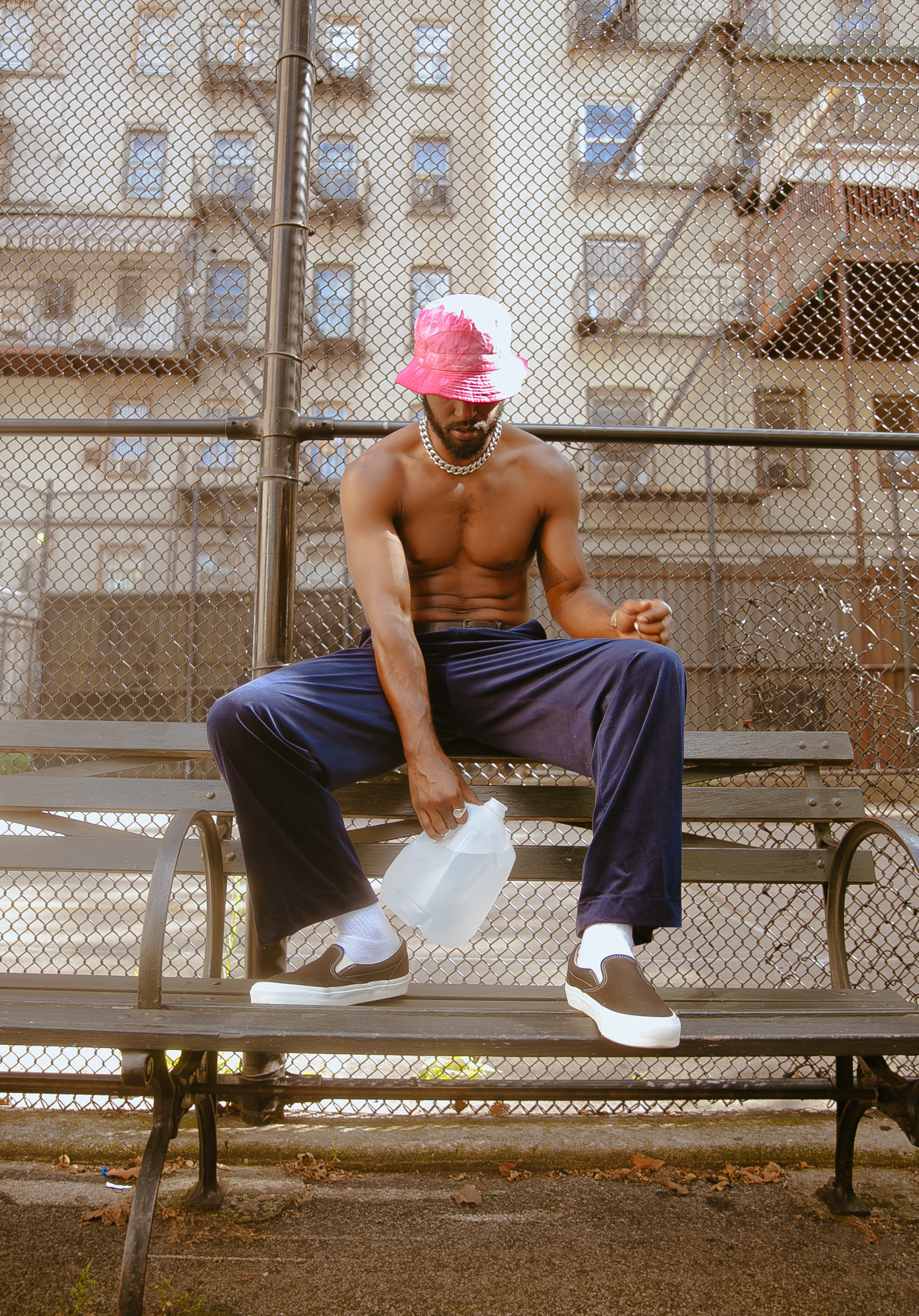 Luke James shot in Brooklyn, NY by Makeda Sandford in 2019